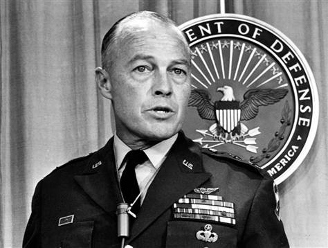 Harry William Osborne Kinnard II (May 7, 1915 – January 5, 2009) was an American military officer who, during the Vietnam War, pioneered the airmobile concept of sending troops into battle using helicopters. Kinnard retired from the military as a Lieutenant General.